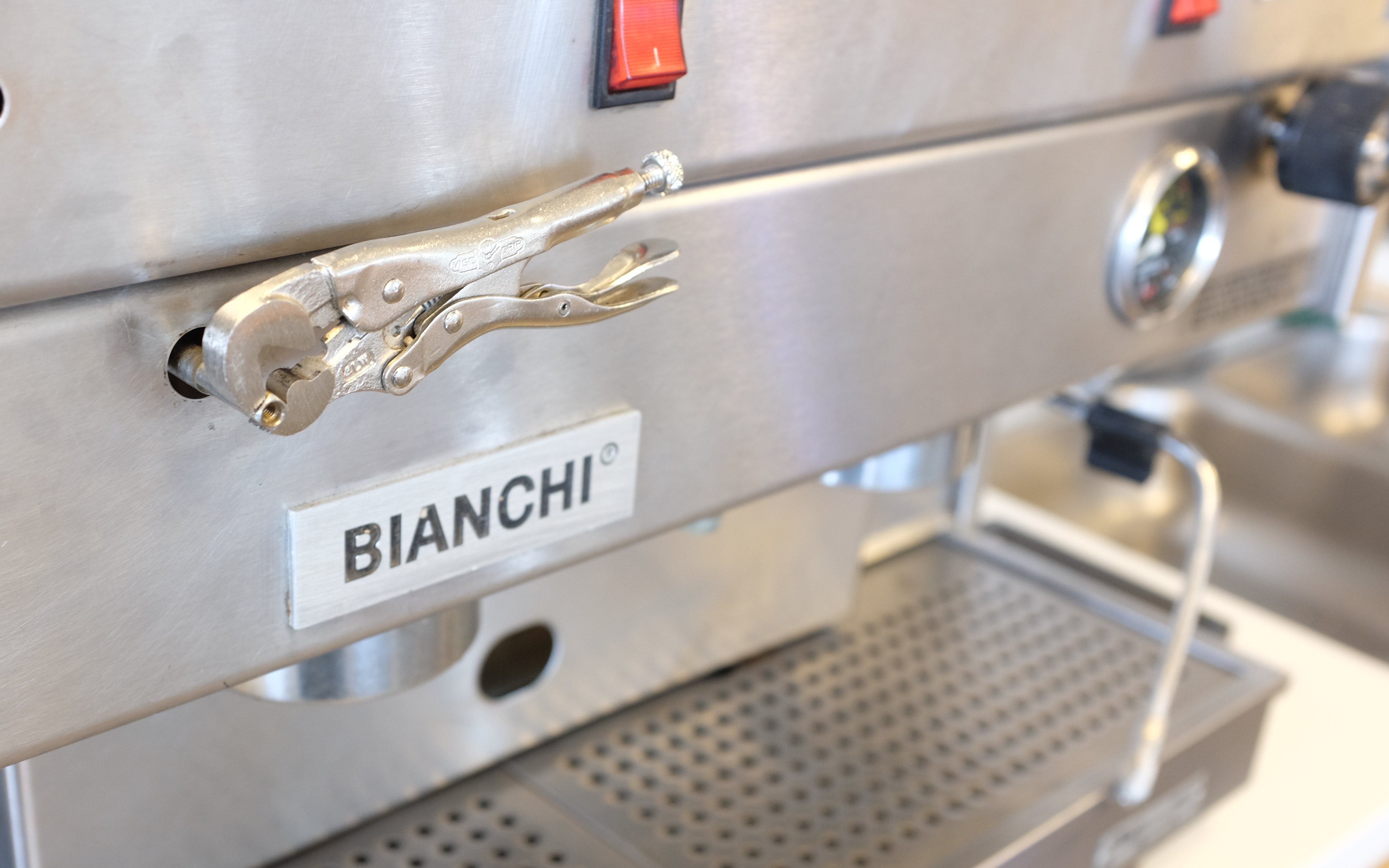 Locking pliers being misused as a knob on an espresso machine.